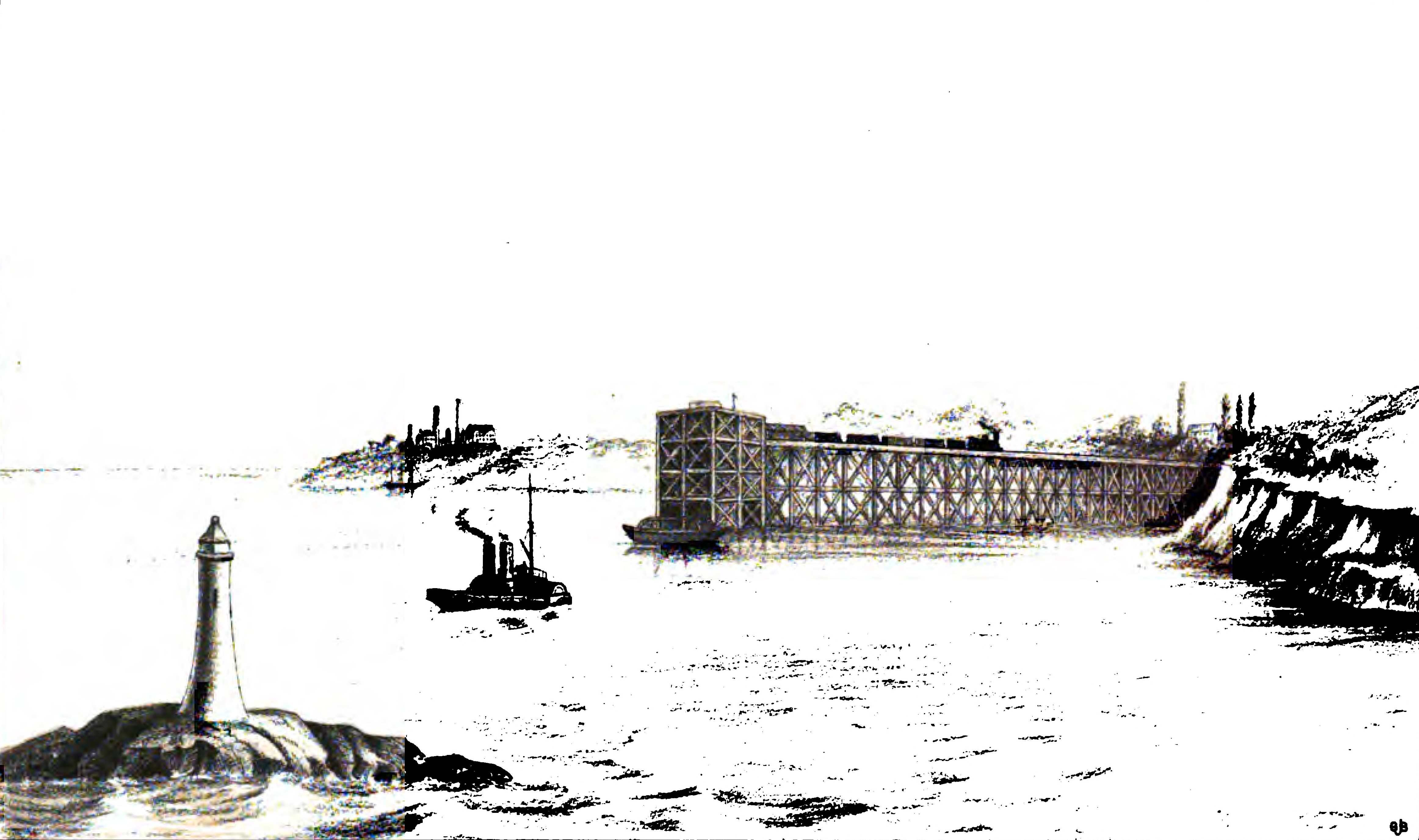 Portskewett Pier (with the Works – Sudbrook in the background)